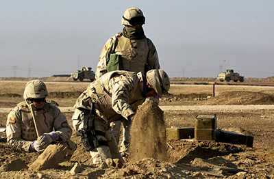 Bosnian soldiers in a near by base in Afghanistan, Zvana, attempting to communicate with the other convoys in the area.